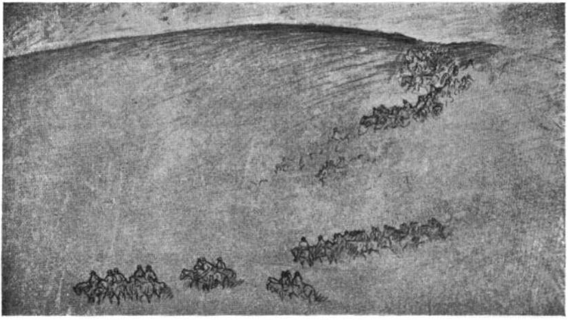 Gutzon Borglum's original design for Stone Mountain, Ga.